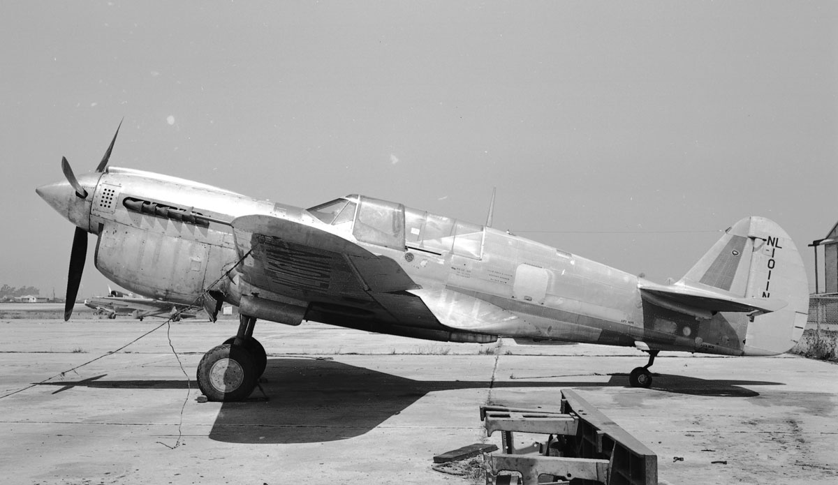 Ex AAF 42-105191 and RCAF 856 at Hayward Airport, CA, in July 1948.